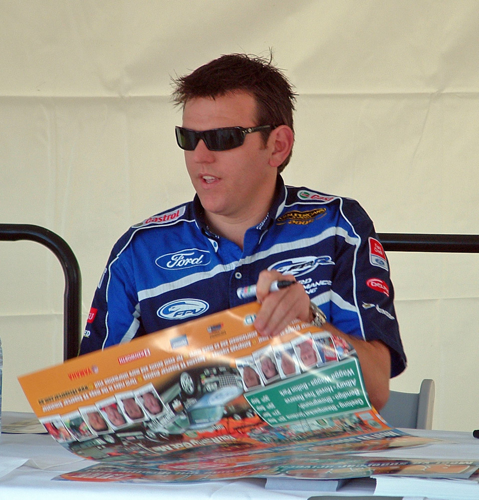 Jason Bright. V8 Supercar Driver